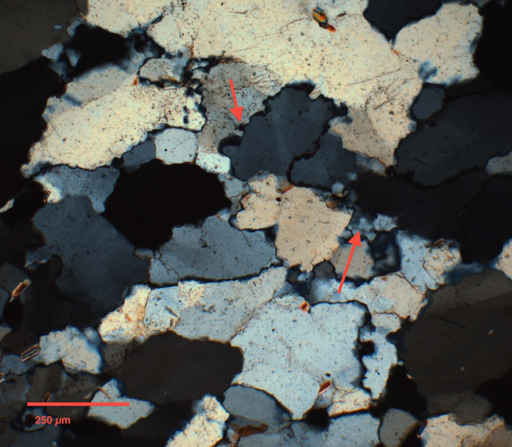 Quartzite exhibiting dominant bulging recrystallization.